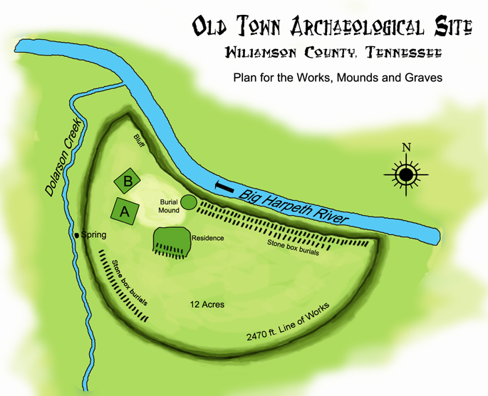 A diagram of the placement of platform and burial mounds, works and stone box burials at the Old Town Archaeological Site in Williamson County, Tennessee. Based on a map found in "The antiquities of Tennessee and the adjacent states, and the state of aboriginal society in the scale of civilization represented by them: A series of historical and ethnological studies" by Gates Phillips Thruston, 1890.[1].